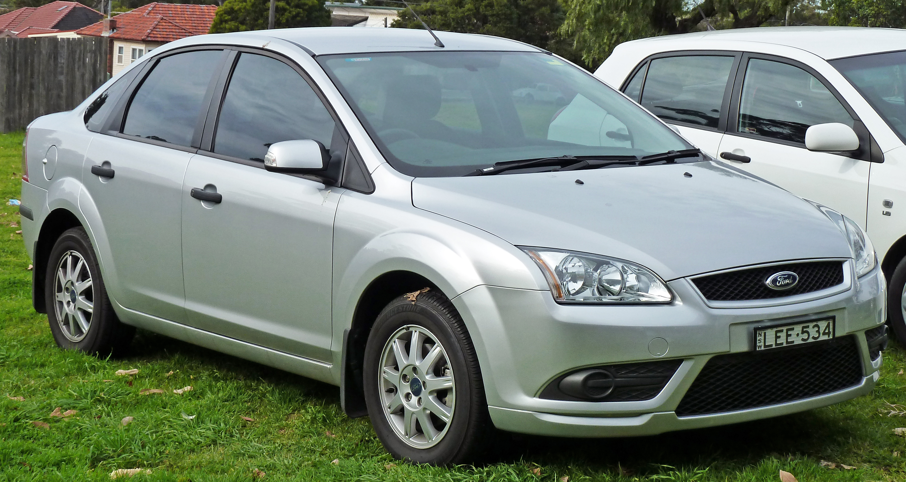 2008 Ford Focus (LT) CL sedan. Photographed in Gymea, New South Wales, Australia.